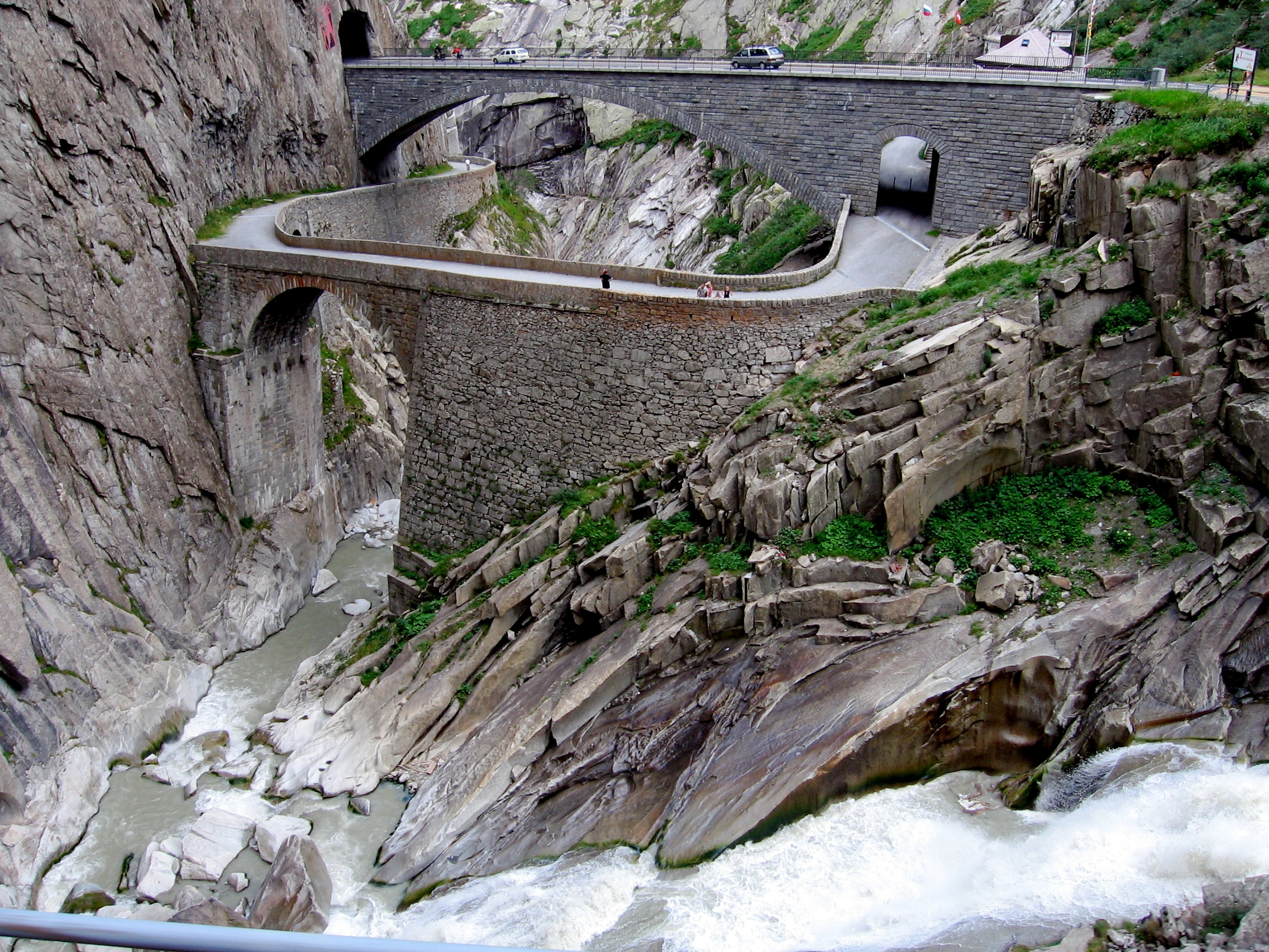 Train trip, Switzerland